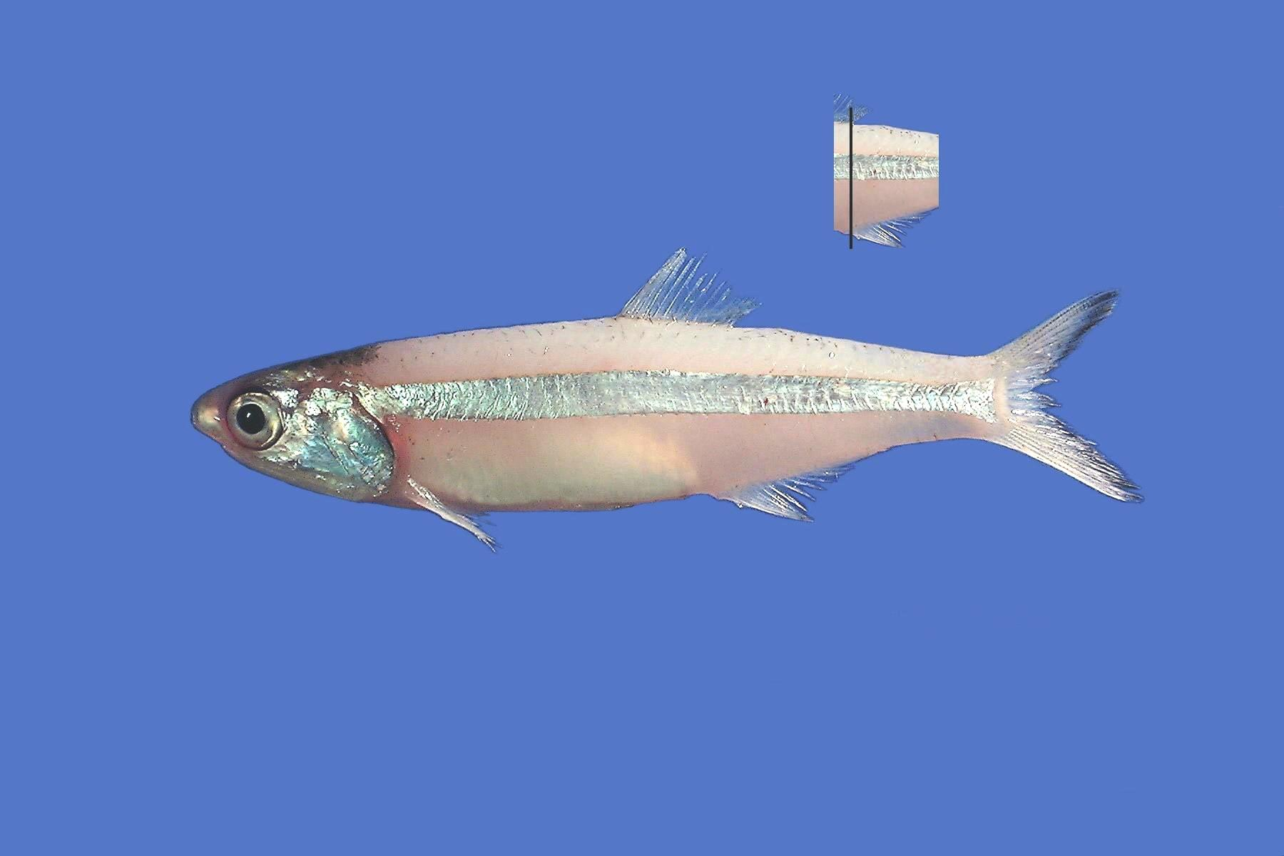 Broad-striped anchovy ( Anchoa hepsetus ). Gulf of Mexico.